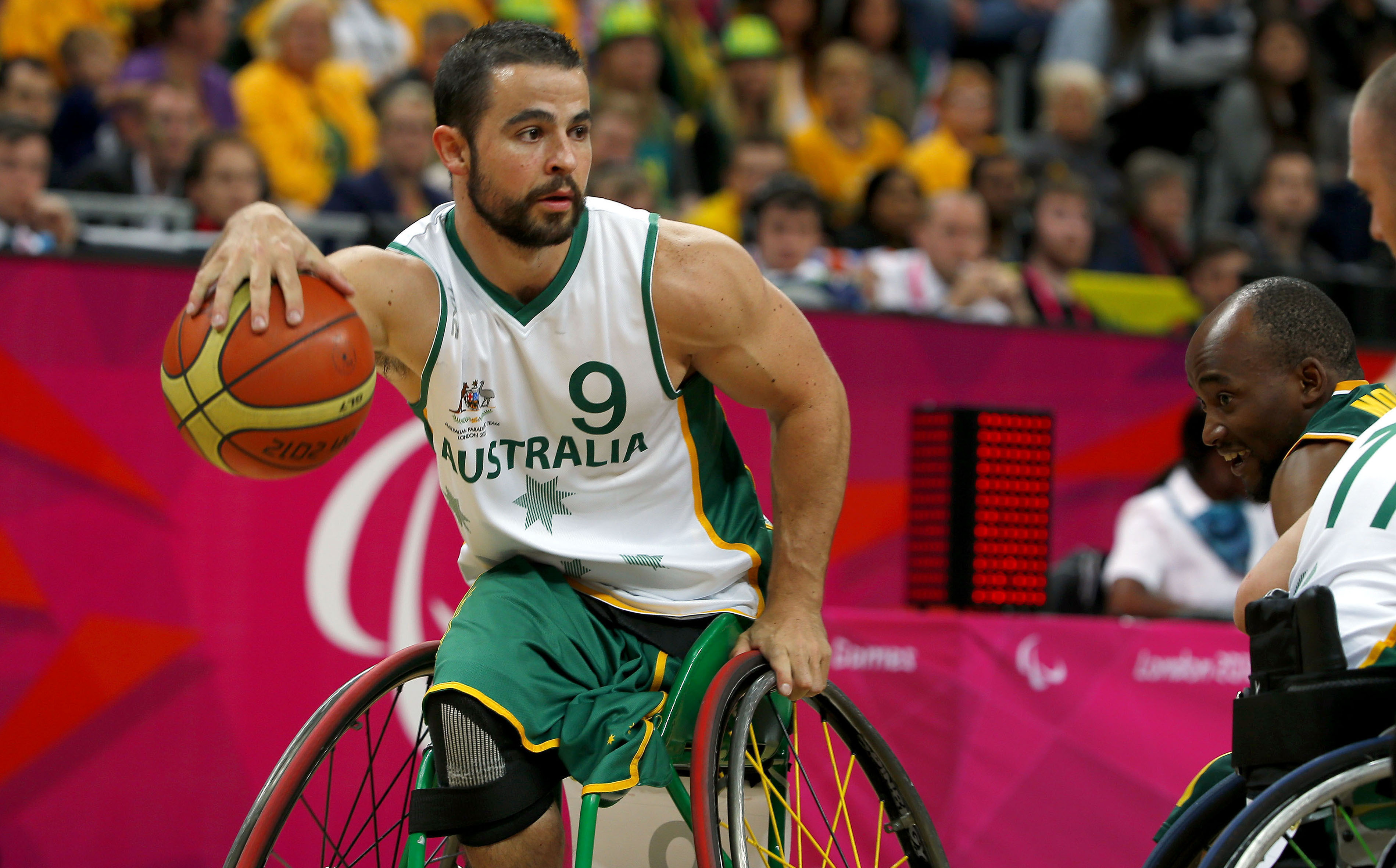 Photograph of Australian Paralympic team member Tristan Knowles at the 2012 Summer Paralympic Games in London